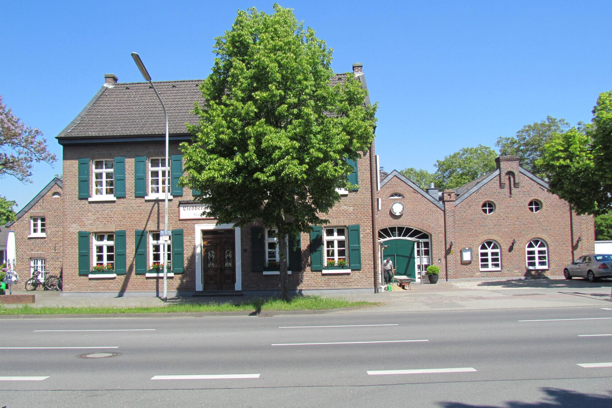 This is a photograph of an architectural monument.It is on the list of cultural monuments of Korschenbroich